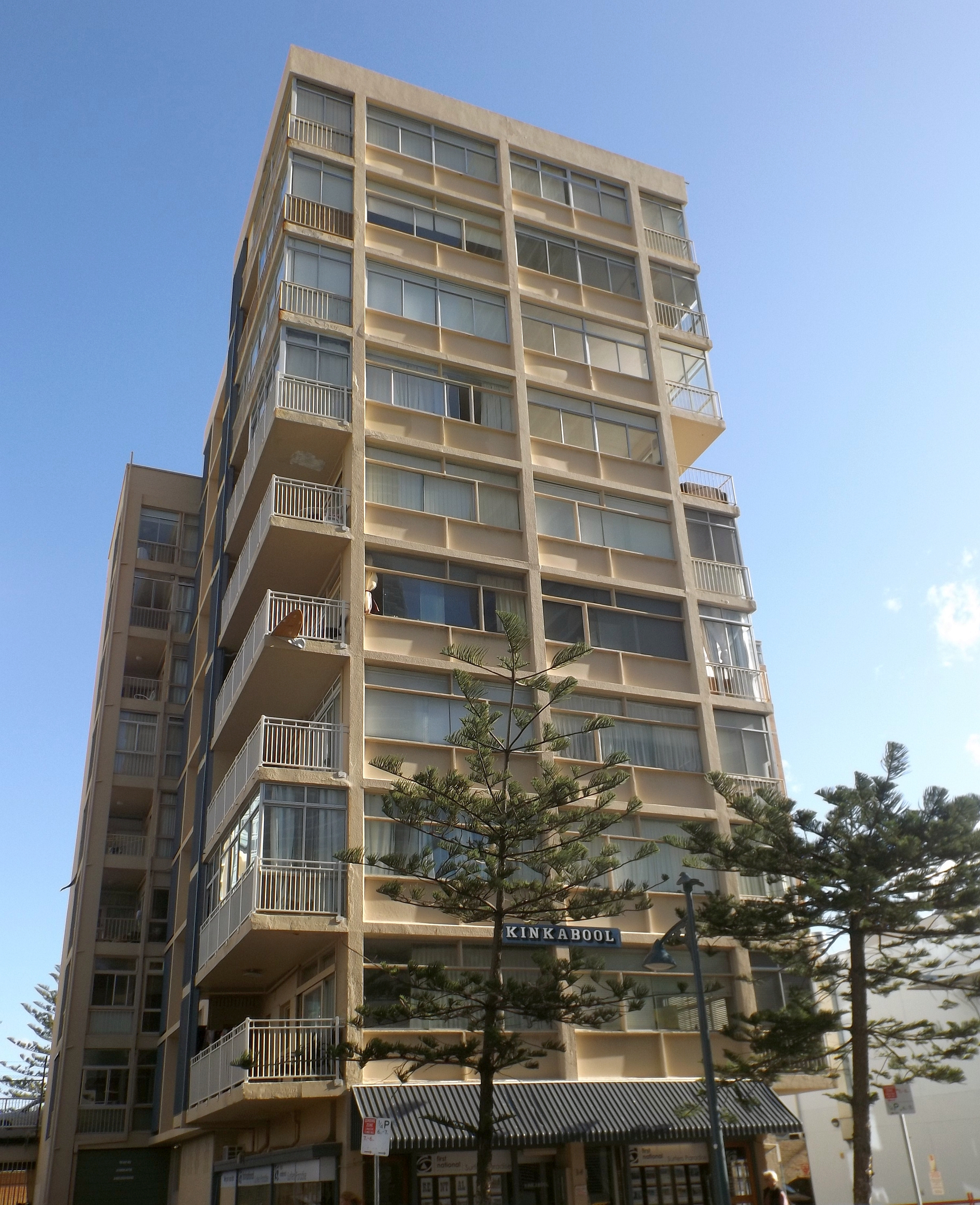 Photo of the front of Kinkabool apartment building at Surfers Paradise, Gold Coast City, Queensland, Australia.